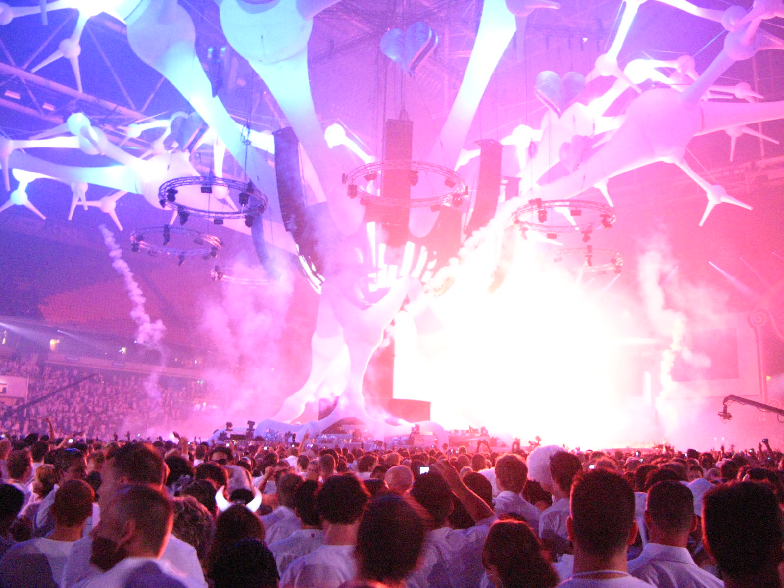 Sensation White 2007 fireworks